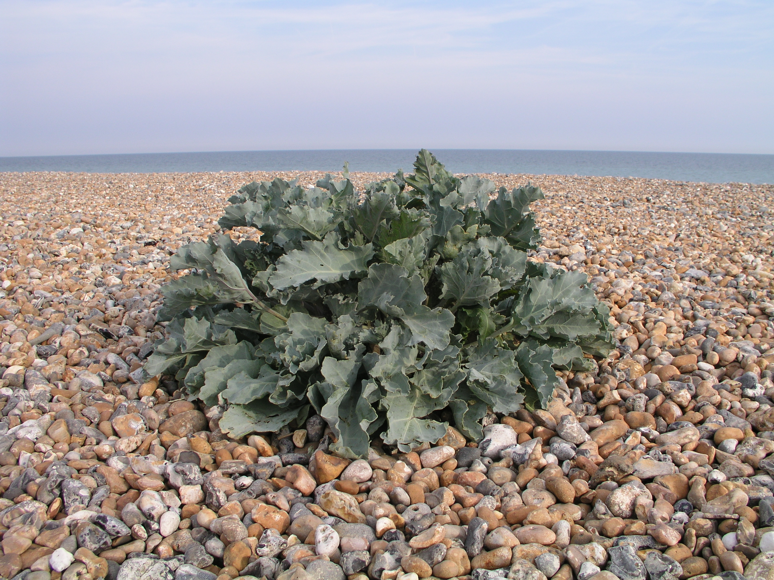 Sea Kale, West Worthing Beach. This plant grows here every year. It's about 1 metre across at the base.